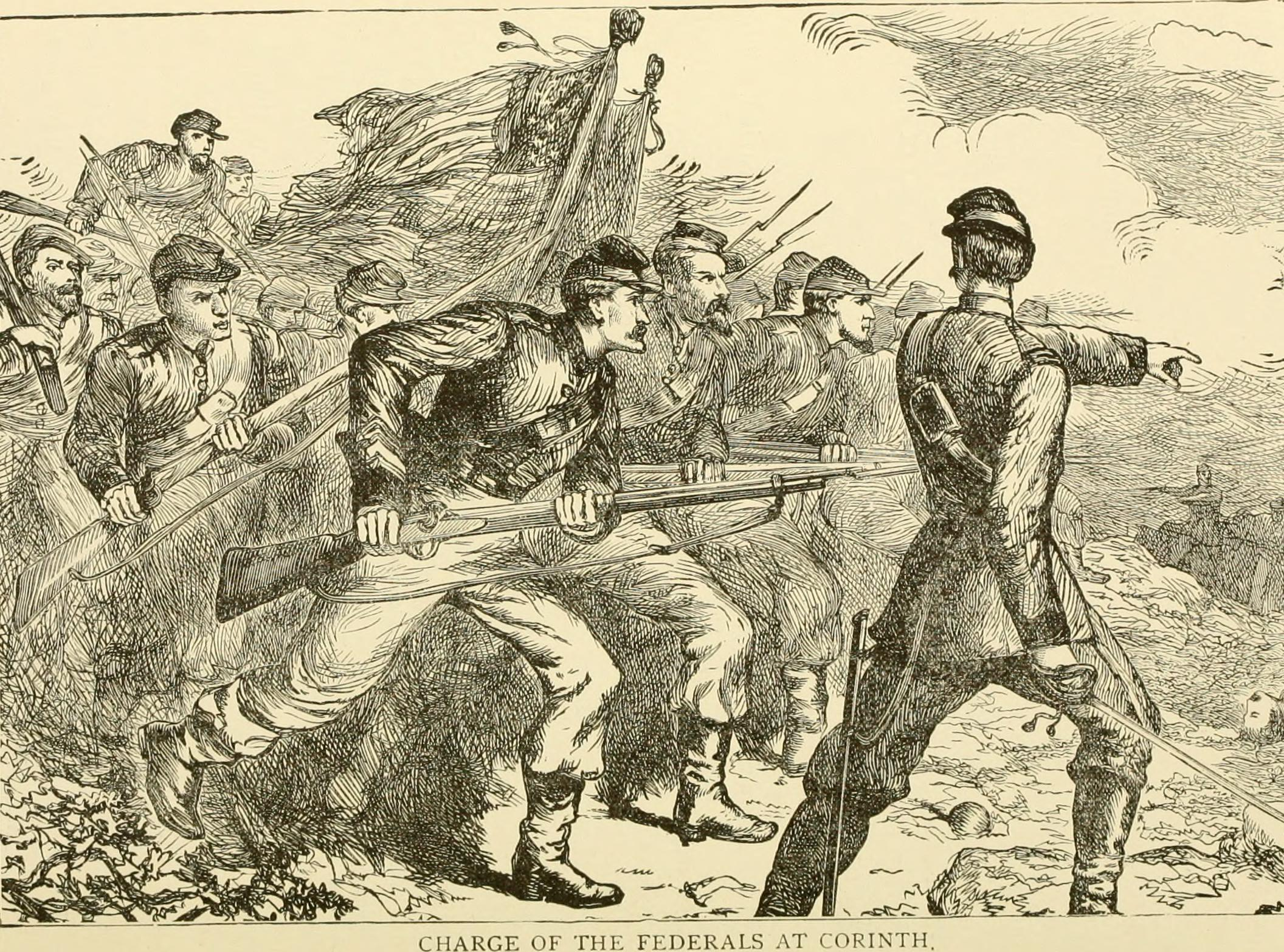 Title: Makers of the world's history and their grand achievements Year: 1903 (1900s) Authors: Northrop, Henry Davenport, 1836-1909 Subjects: World history. (from old catalog) Biography Publisher: Philadelphia, Pa., National publishing co Text Appearing Before Image: -, to be com-manded by General Scott, then at Washington. Sherman was placed incommand of a brigade in Tylers division of the army, marching to BullRun. This brigade consisted of the 13th, 69th and 79th New York, andthe 2d Wisconsin regiments, which in the terrible engagement that fol-lowed suffered serious losses. In August, Sherman was made brigadier-general of volunteers, andwas sent from the Army of the Potomac to serve under General Andersonin Kentucky. In Nov^embar, General Buell relieved him of this com-mand, and Sherman was ordered to report to General Halleck, who placedhim in command of Benton Barracks. It was in February, 1862, that General Grant moved on Forts f ,ft« Text Appearing After Image: GENERAL WILLIAM T. SHERMAN. 433 Heury and Donelson, and after their capture Sherman was placed incommand of the 5th division of the Army of the Tennessee. In thebattle of Shiloh, Shermans service was especially notable. This occurredon the 6th and ytli of April; and as Shermans position was in the verycentre of the fight, an excellent opportunity was afforded him of showinghis superior mettle. Of his behavior during that engagement, GeneralGrant wrote in his report: I feel it a duty to a gallant and able officer,Brigadier-General W. T. Sherman, to make mention. He was not onlywith his command during the entire two days of the action, but displayedgreat judgment and skill in the management of his men. To his in-dividual efforts, I am indebted for the success of that battle. GeneralHalleck also says : Sherman saved the fortunes of the day on the 6th,and contributed largely to the glorious victory of the 7th. ORDERED TO THE DEFENSE OF MEMPHIS. General Halleck became general-in-chief, wit